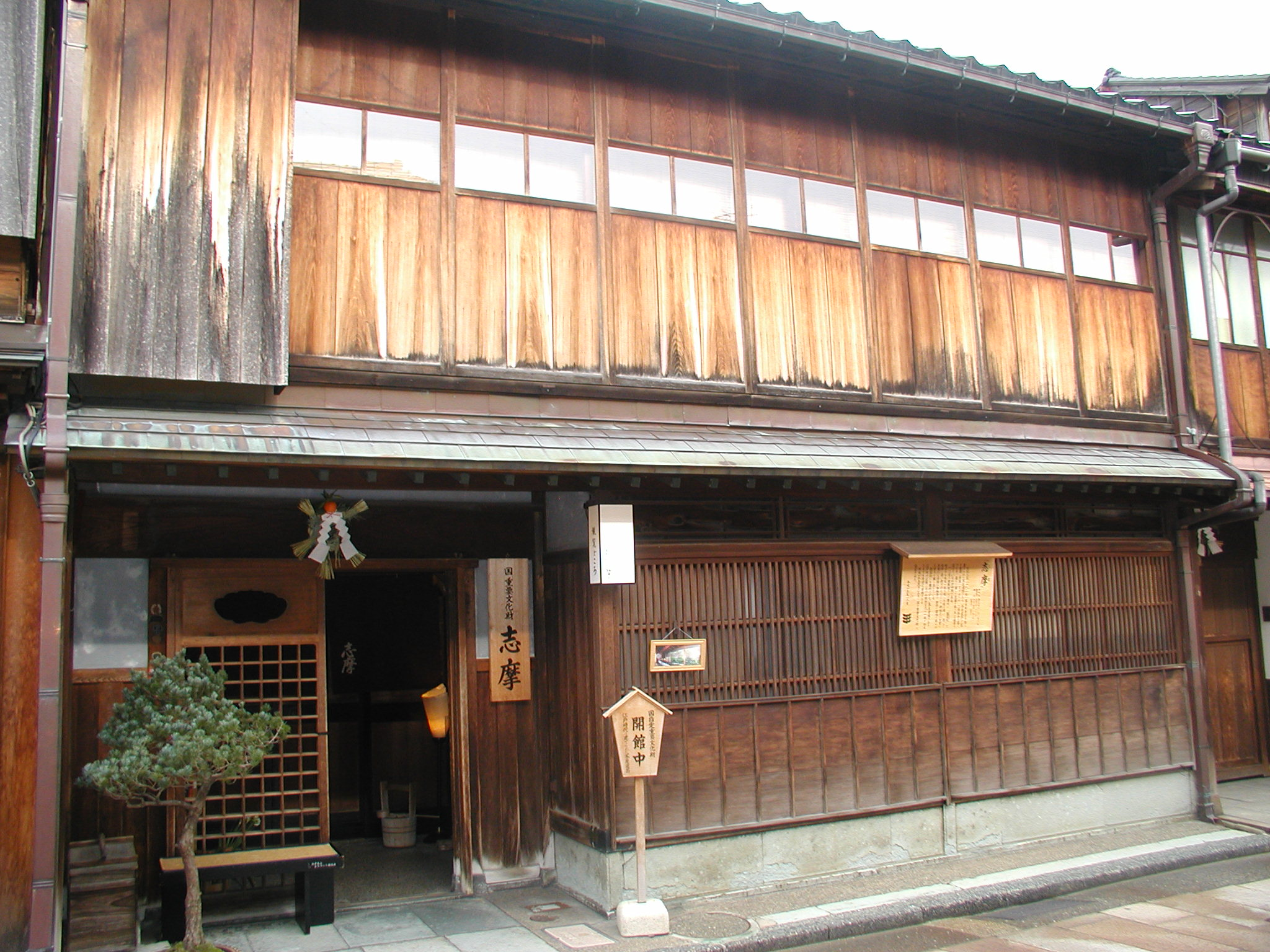 The facade of Shima (志摩), a former geisha house in Kanazawa. It's a chaya (ochaya), not an okiya.